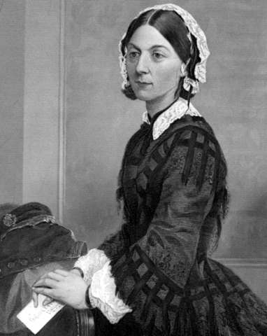 Florence Nightingale. This painting was made based on the photography Image:Florence Nightingale 1920 reproduction.jpg